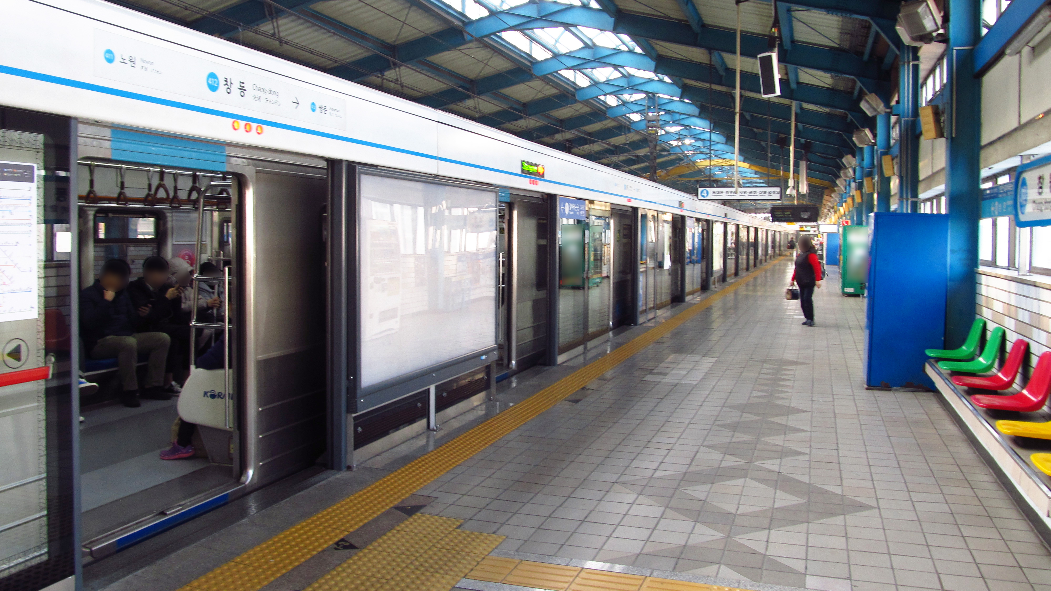 The platform at Chang-dong Station on Seoul Subway Line 4 in Dobong-gu, Seoul, Republic of Korea(South Korea)